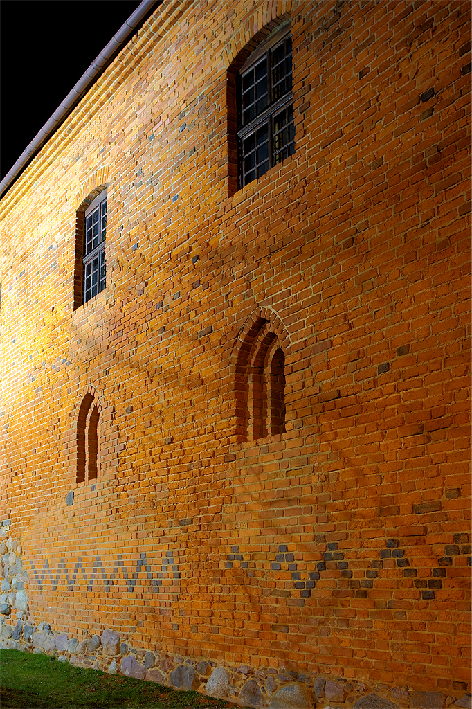 Castle in Ostróda